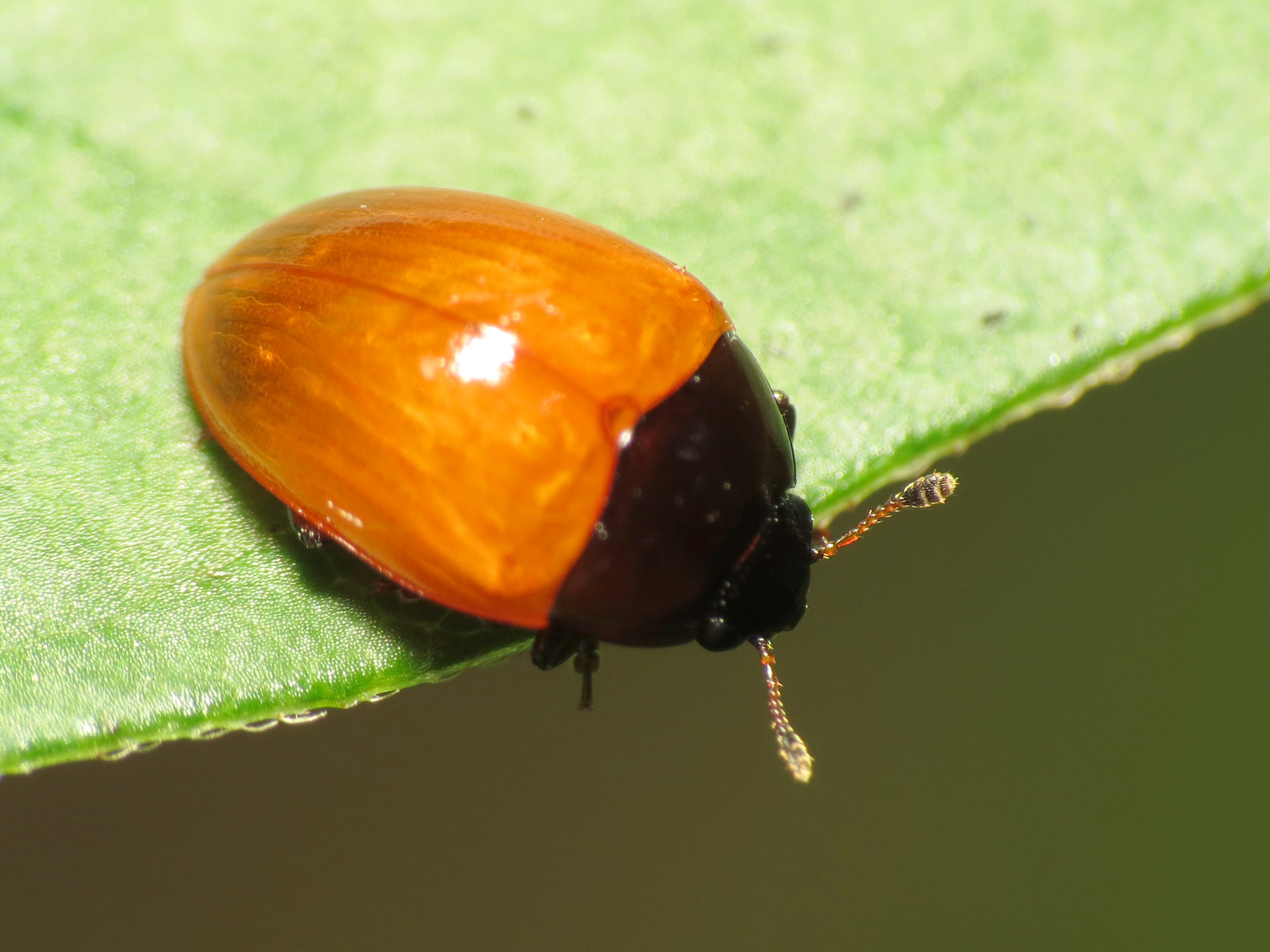 Tritoma sanguinipennis. Rock Creek Park, Washington, DC, USA.